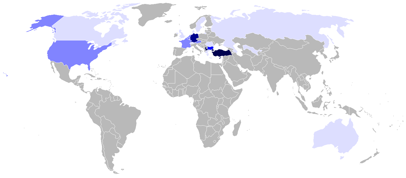 Map showing the presence of Turkish speakers in the countries of the world by shades of blue, based on Image:BlankMap-World.png. The map shades the whole area within the national borders of each country with the colors defined in the legend below. Numbers are partly based on Gordon, Raymond G., Jr. (ed.), 2005. Ethnologue: Languages of the World, Fifteenth edition [1]. Further references for the numbers are to be found at the end of Turkish diaspora article on the English Wikipedia. Legend Official language Turkey, Cyprus, Macedonia (at the municipal level), Kosovo (at the municipal level) More than 1,000.000,speakers Germany Between 500,000 - 1,000,000 speakers Bulgaria, Iraq, Greece Between 100,000 - 500,000 speakers France, Netherlands, Belgium, Austria, United States, Uzbekistan Between 25,000 - 100,000 speakers United Kingdom, Australia, Azerbaijan, Canada, Russia, Sweden, Denmark, Switzerland, Romania Less than 25,000 speakers/No speakers Other countries